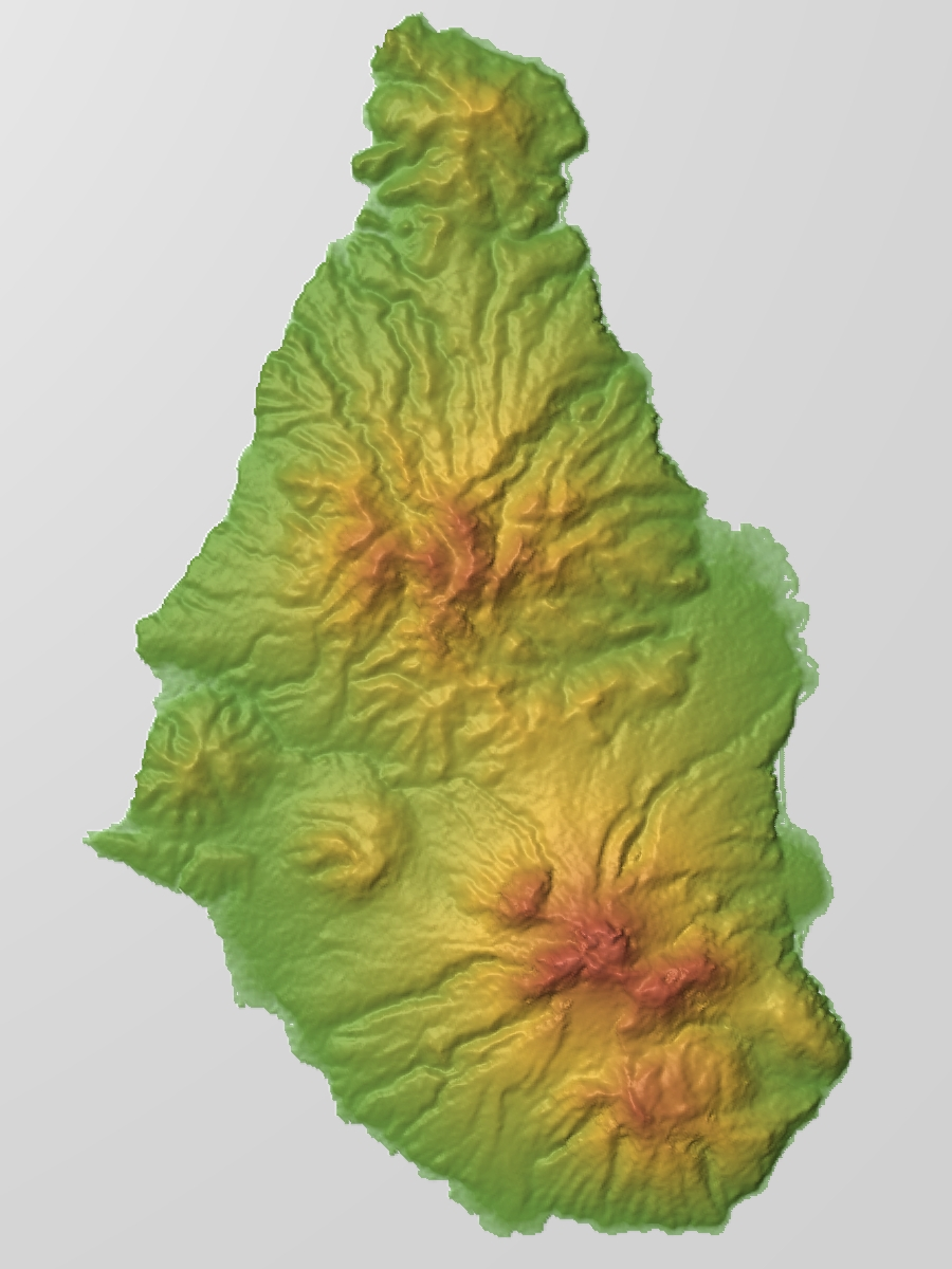 Montserrat in British West Indies.